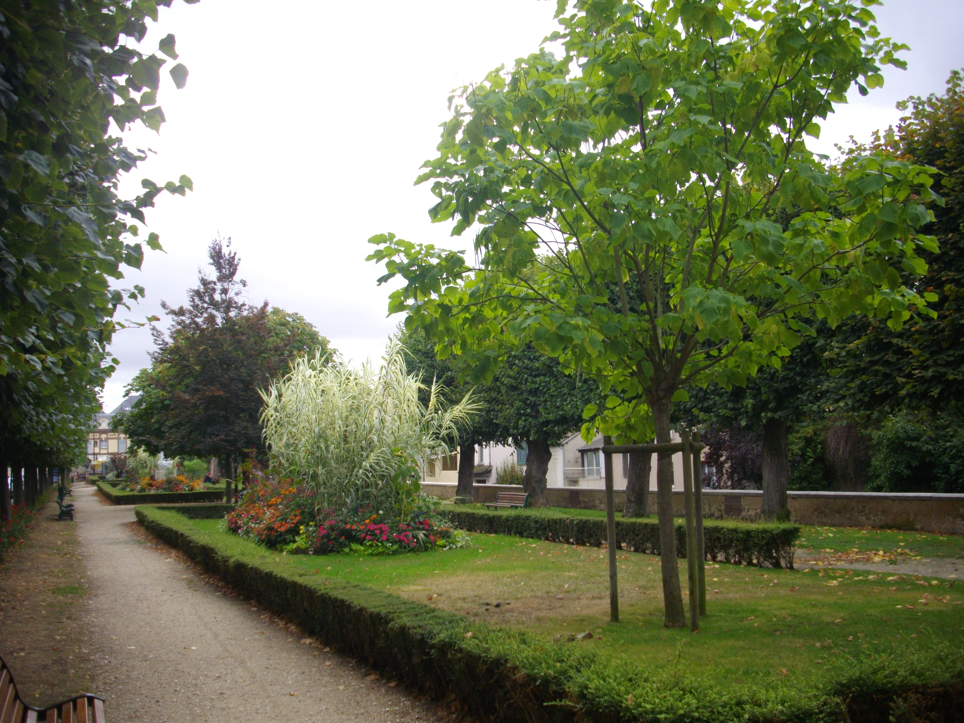 Republic garden, in Dreux (Eure-et-Loir, France)